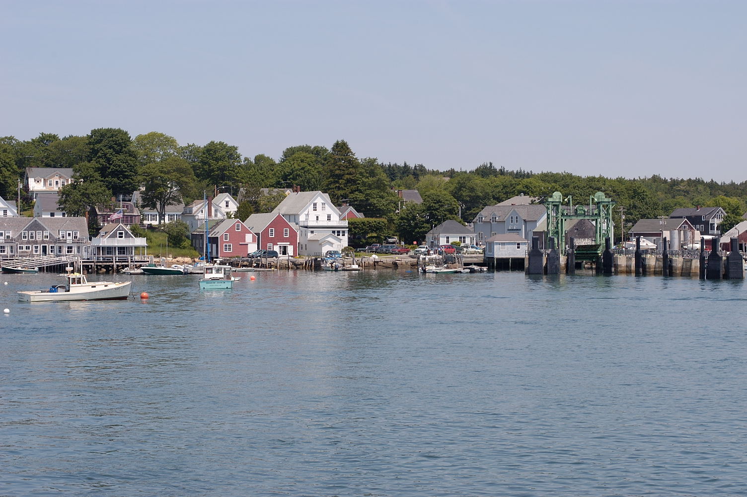 photo by Jason Philbrook. Other images of the area available at